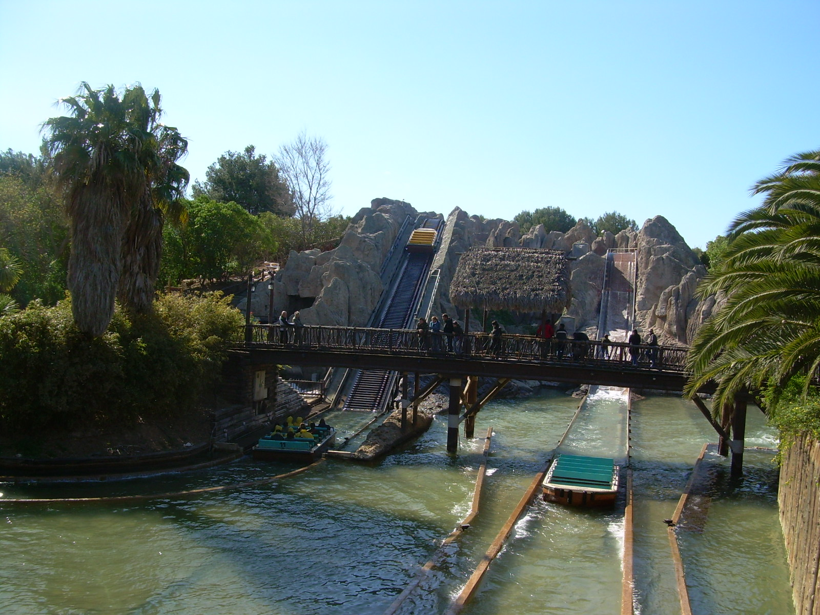 Tutuki Splash in Port Aventura, far view.